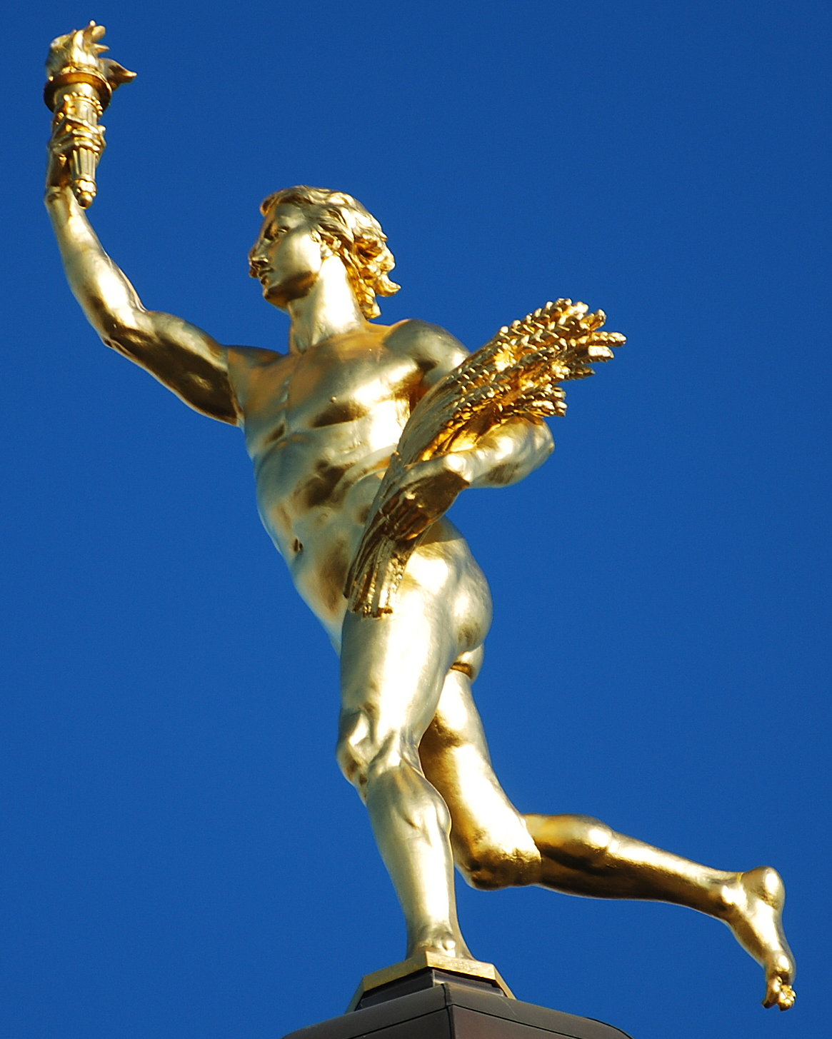 The Golden Boy (officially, "Eternal Youth") is a 5.25 metre tall statue installed atop the dome of the Manitoba Legislature in Winnipeg, Canada. It depicts a youth facing north, holding a torch in his right hand and carrying a sheaf of wheat under his left arm.